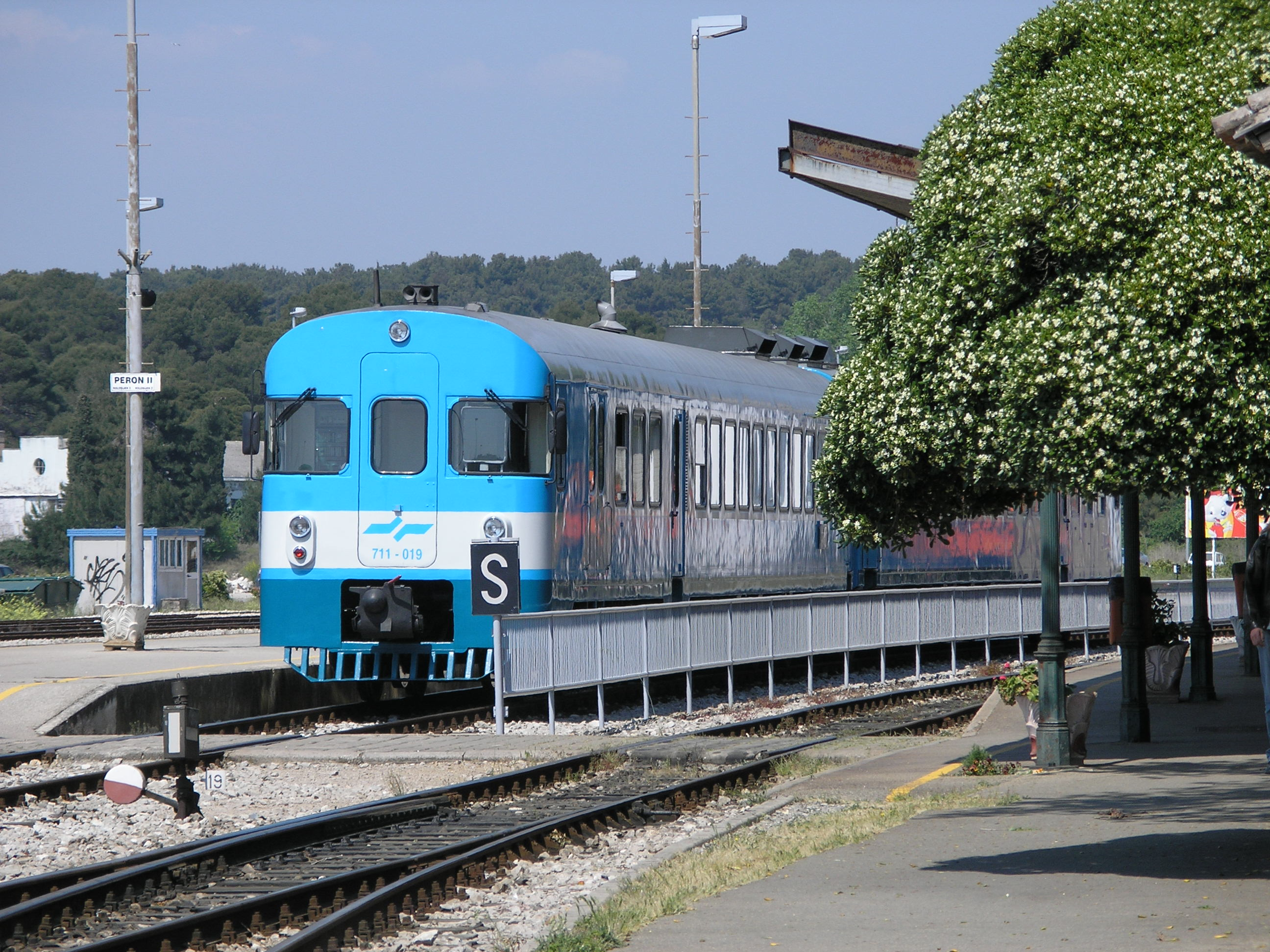 A Slovenian 711 series train